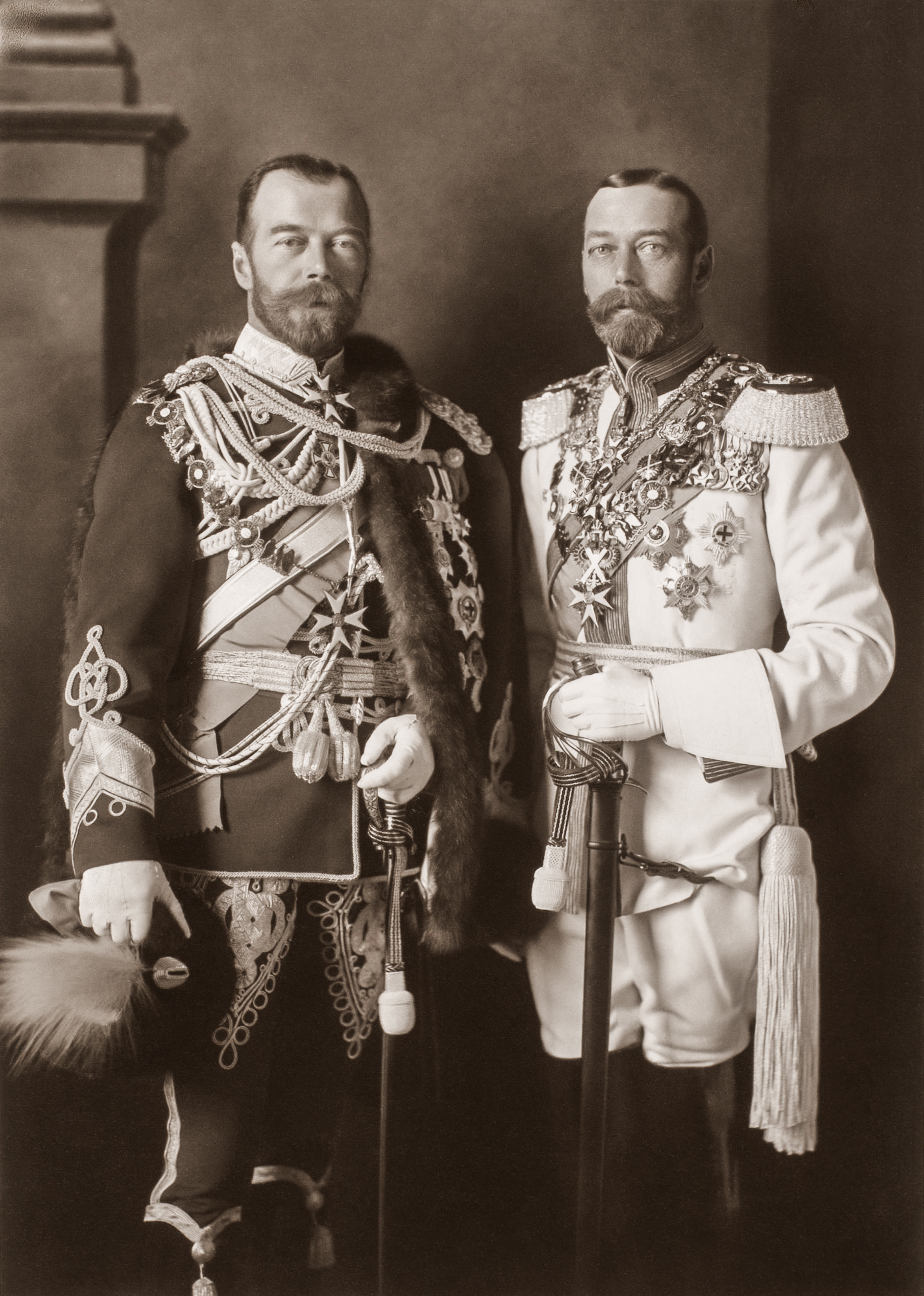 George V (light uniform) and Nicholas II (dark uniform) in Berlin, 1913.